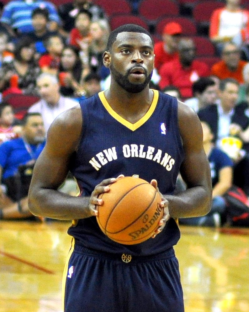 Tyreke Evans of the New Orleans Pelicans stands at the free throw line during an NBA preseason basketball game against the Houston Rockets, October 5, 2013, at the Toyota Center in Houston, Texas.